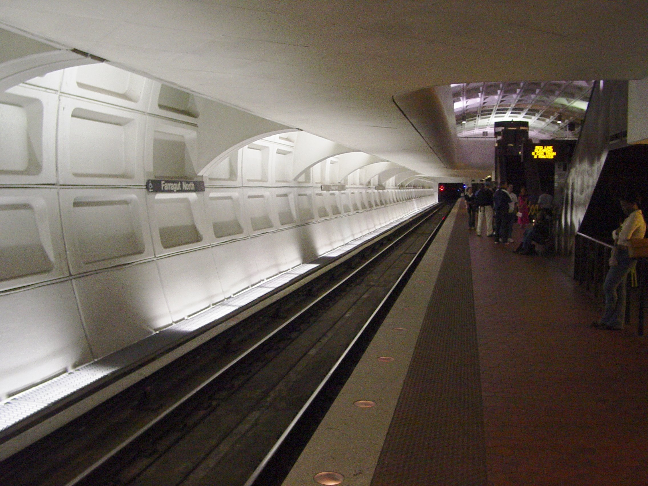 Farragut North station, on the Red Line of the Washington Metro system. Photo by Ben Schumin on June 5, 2004.